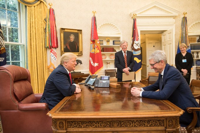 President Donald J. Trump and CEO of Apple Tim Cook in the Oval Office at the White House. April 25, 2018. In the background: John Bolton.